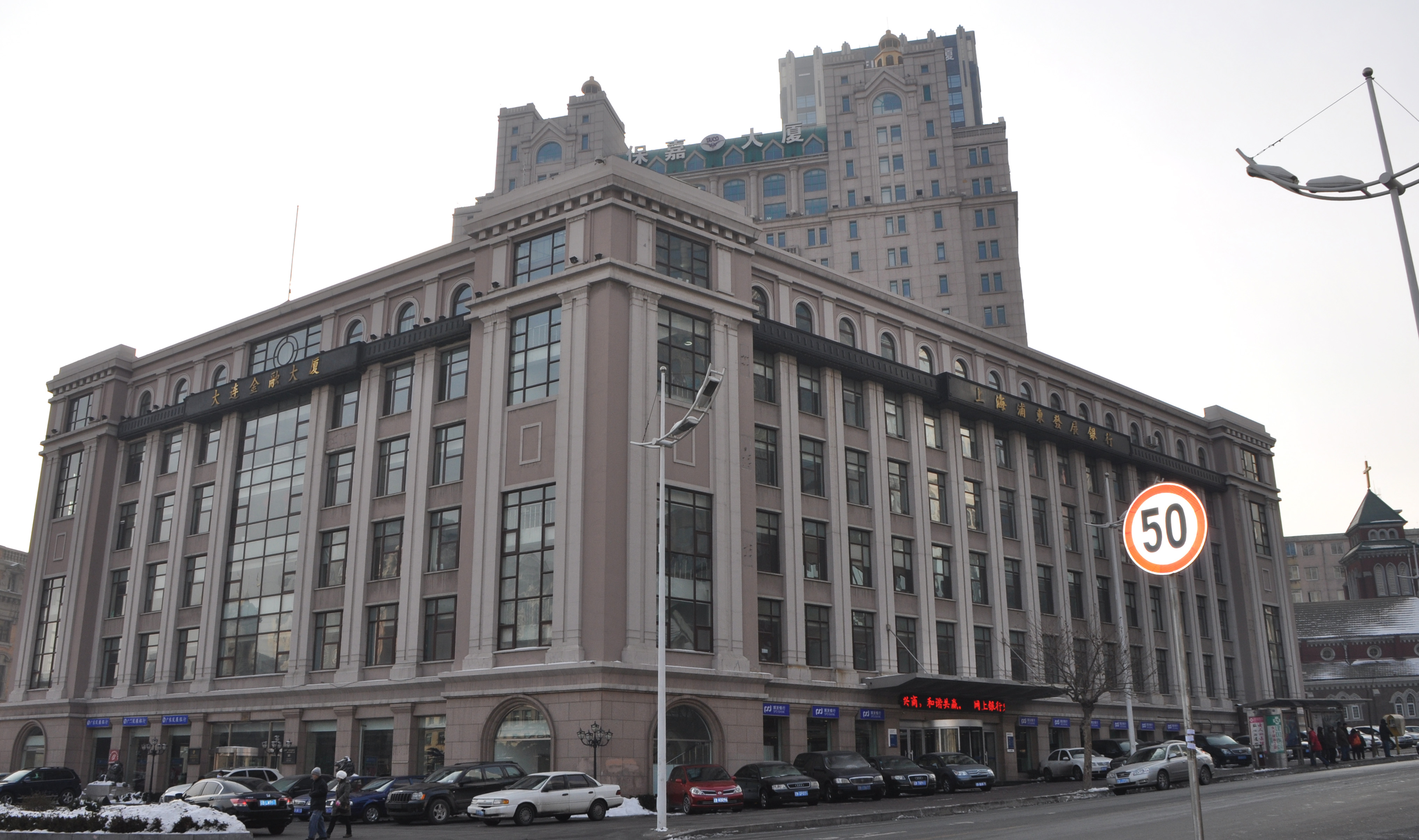 Dalian Financial Building, China